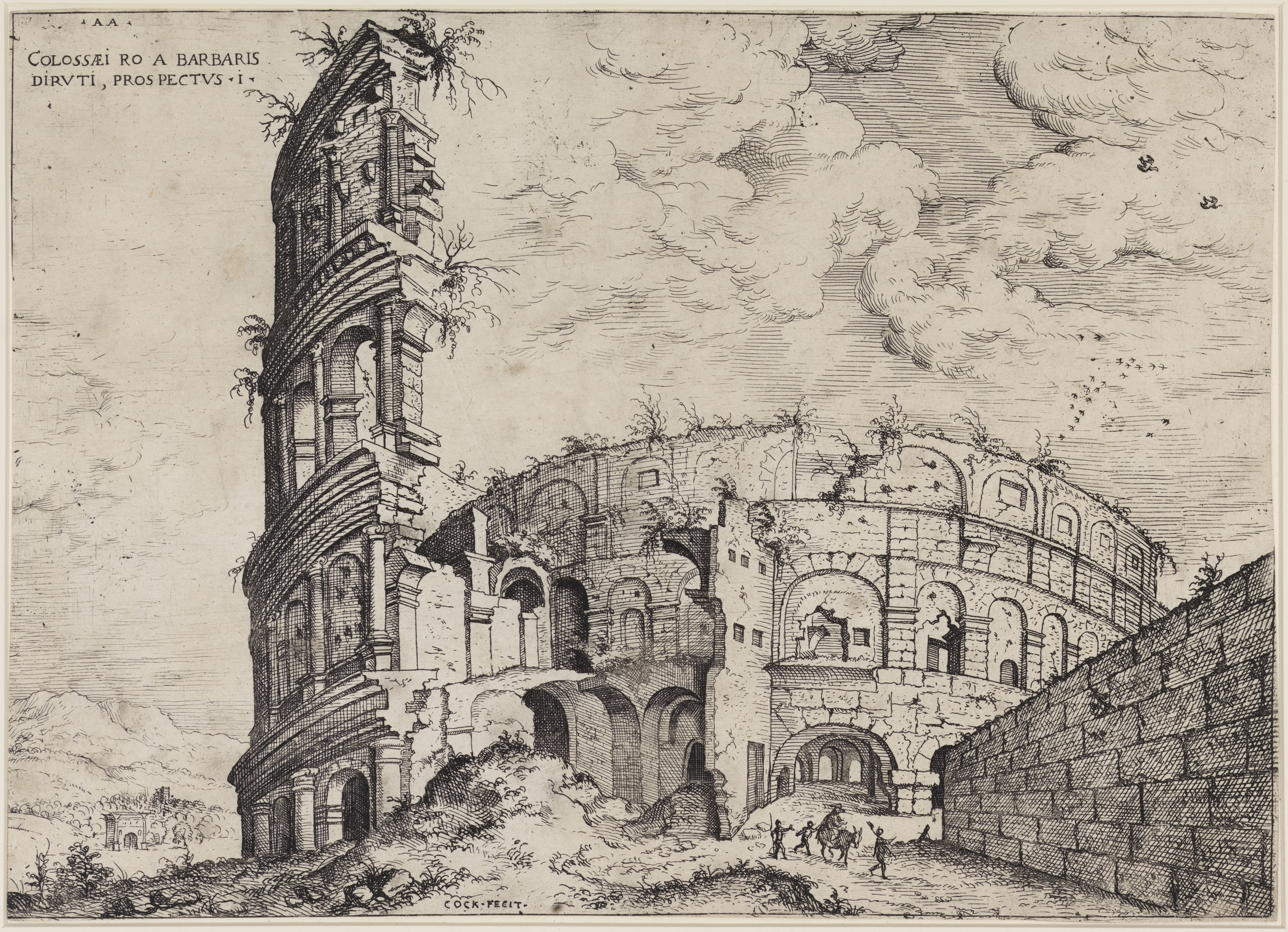 View of the Colosseum